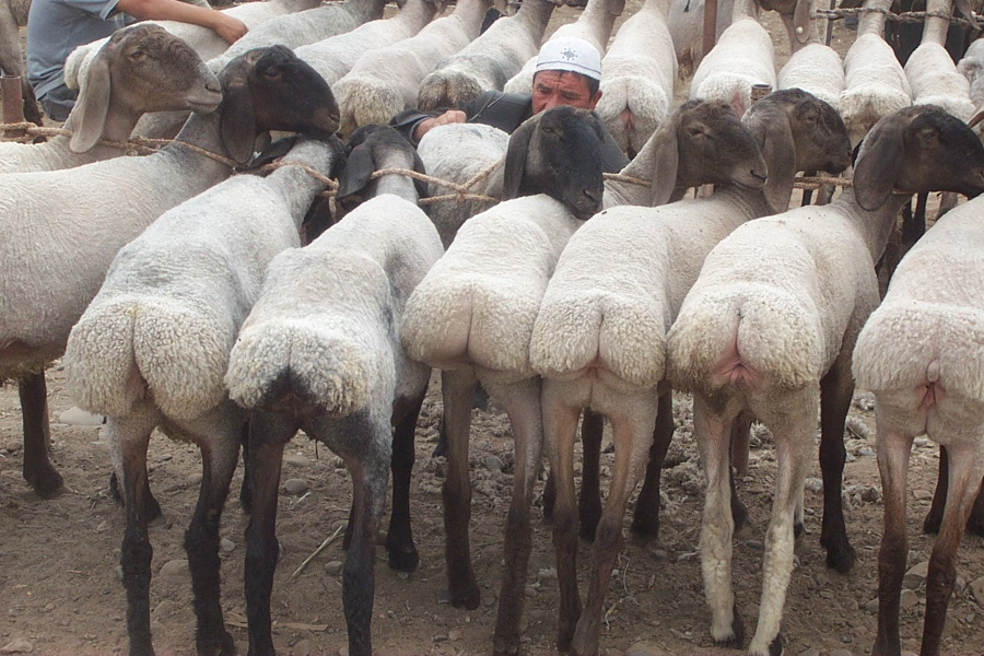 Fat Tailed Sheep for sale at the Kashgar (Xinjiang, CN) Sunday livestock market